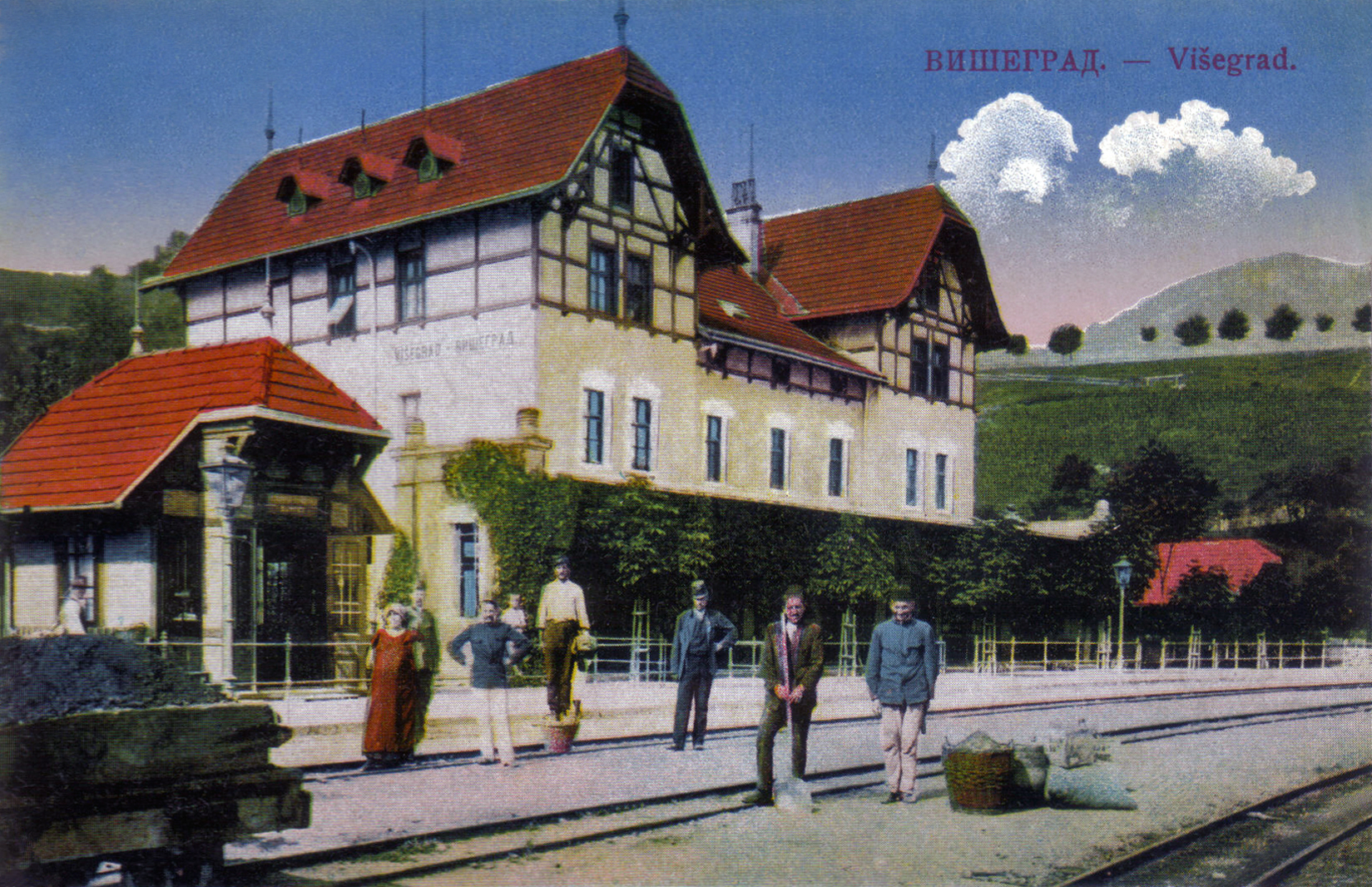 Narrow-gauge railway station Višegrad on the line Sarajevo (- Vardište) - Uvac